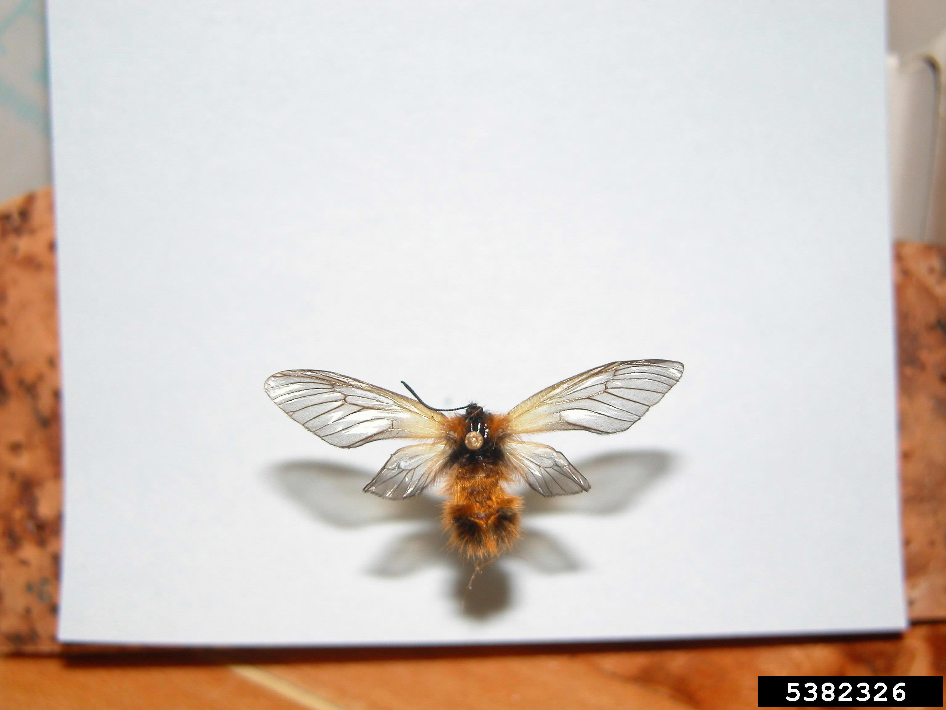 Pryeria sinica adult